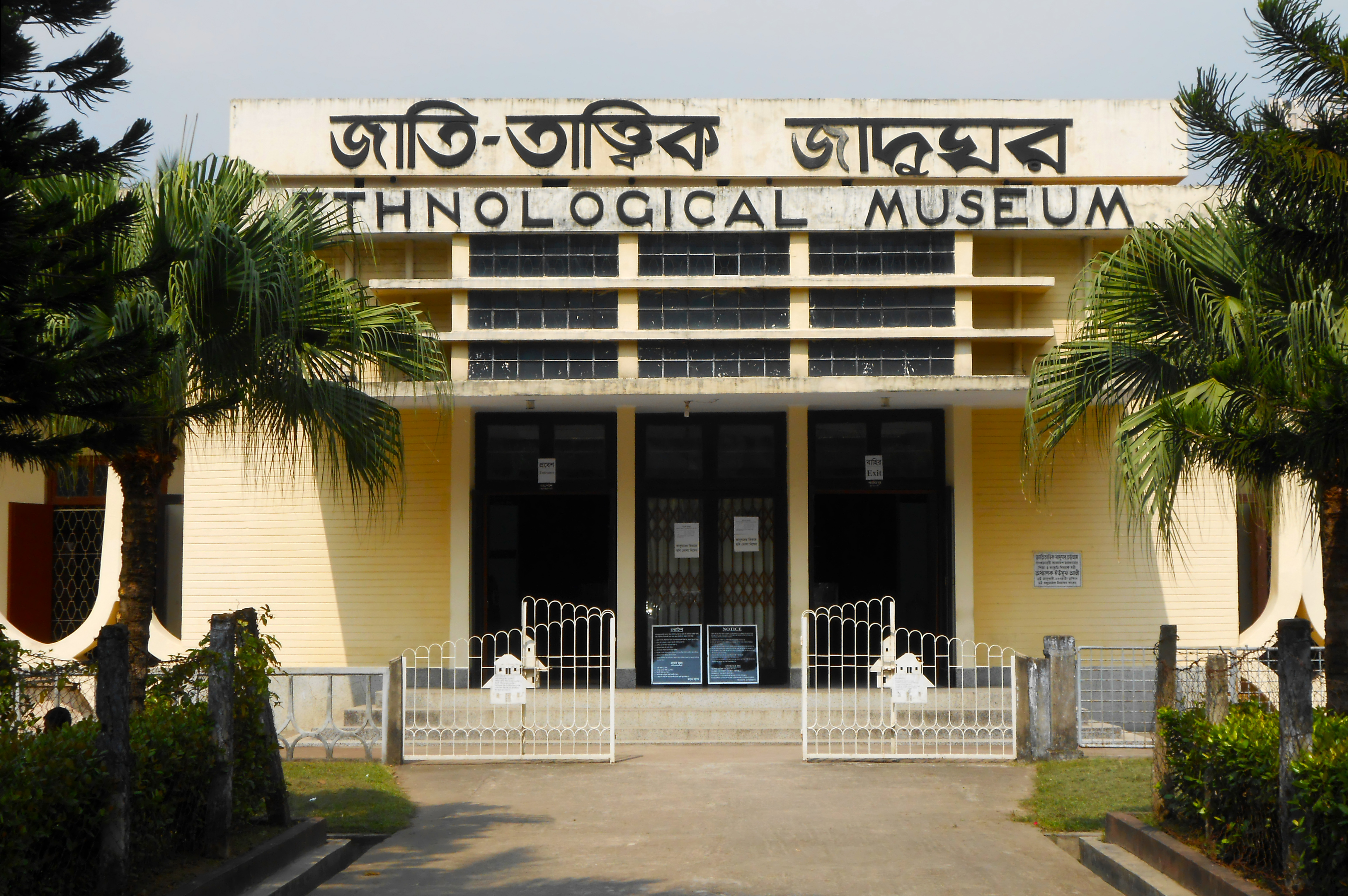 Entrance of Ethnological Museum Ethnological Museum of Chittagong Native nameজাতি-তাত্ত্বিক জাদুঘর, চট্টগ্রামLocationChattogramCoordinates22° 19′ 40.99″ N, 91° 48′ 46.11″ E Established1965Web control : Q15217015 institution QS:P195,Q15217015